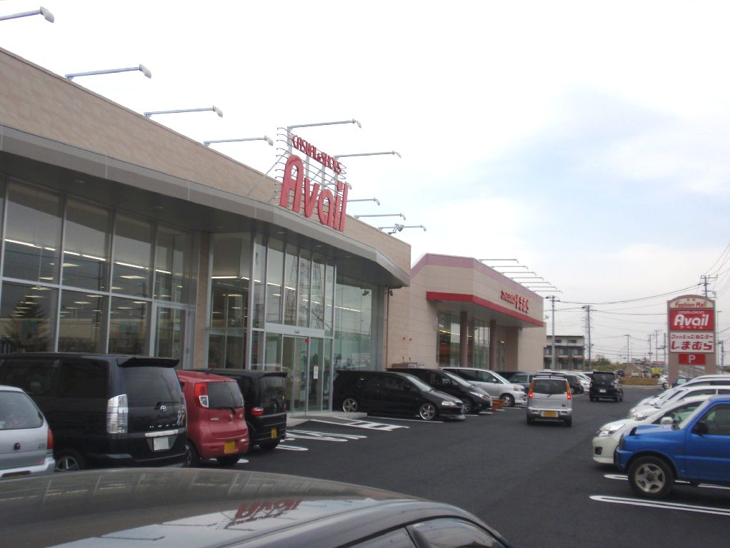 Takasaka fashion mall (shimamura Takasaka store, Avail Takasaka store) /from Higashimatsuyama city, Saitama pref